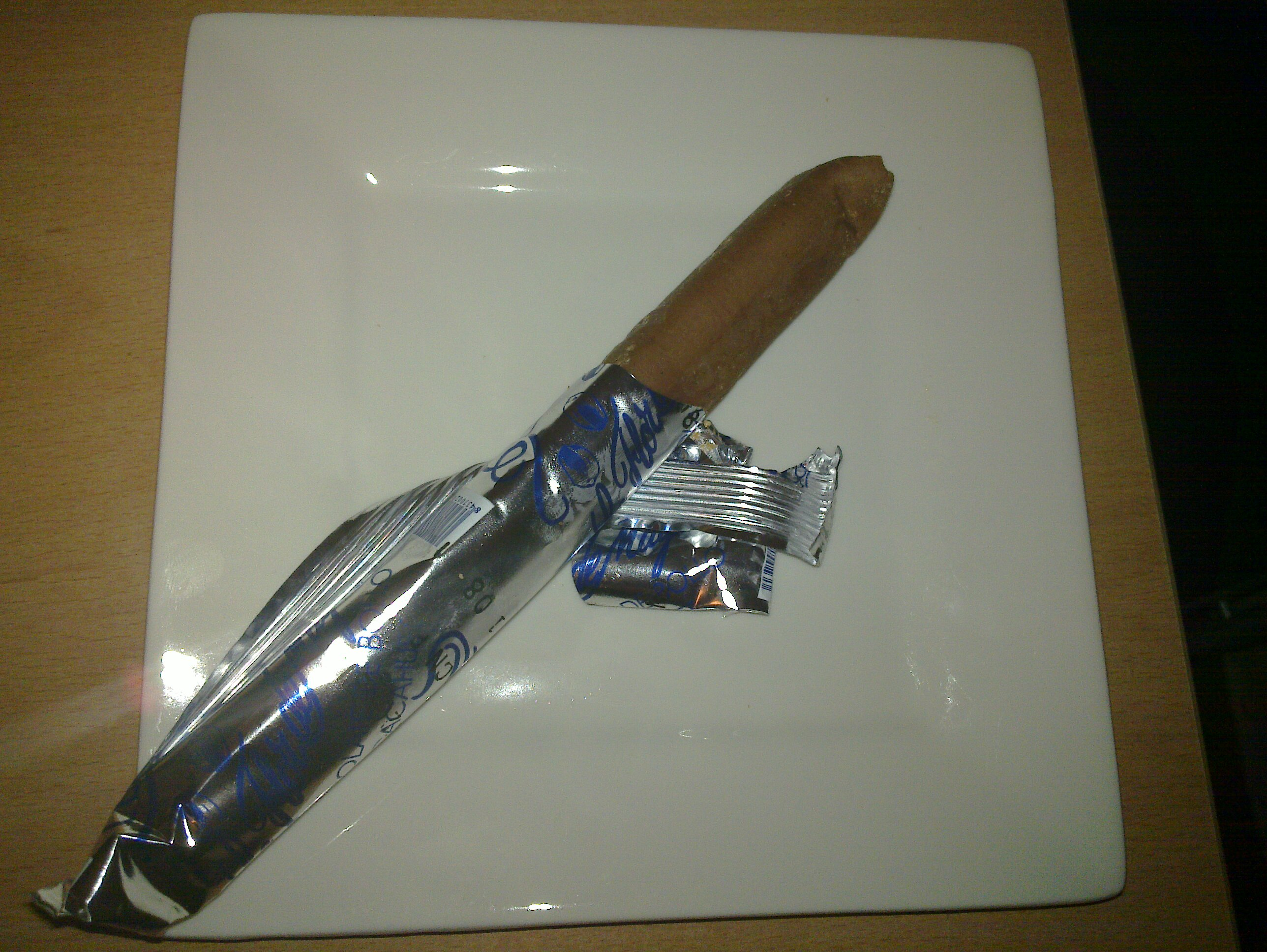 Traditional sweet from a region of Cordoba, Andalusia